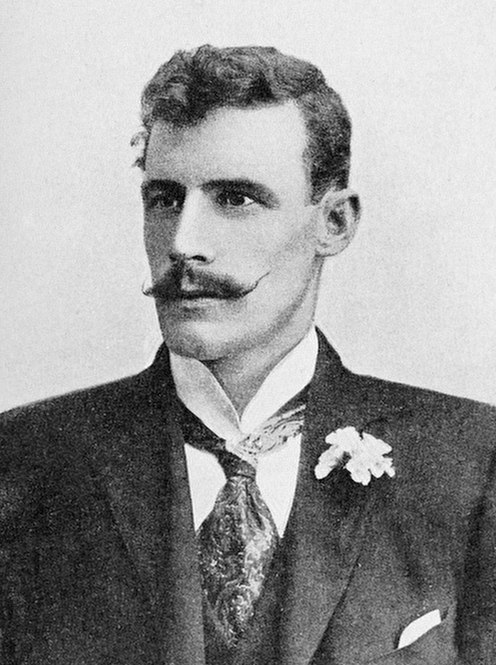 Australian cricketer Jack Saunders, circa 1900.